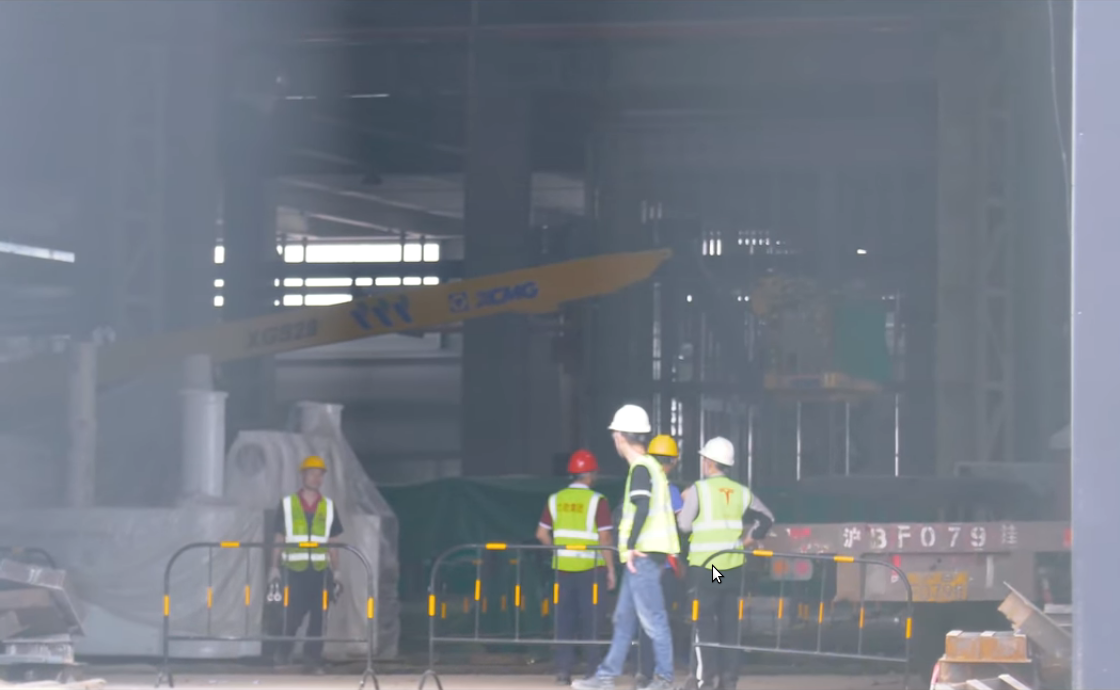 Photograph (through doorway) of locally-produced Giga Press compression platten being unloaded a Tesla Giga Shanghai. This machine was probably the machine previously seen during the LK Machinery factory tour in November 2019 in Shenzhen.